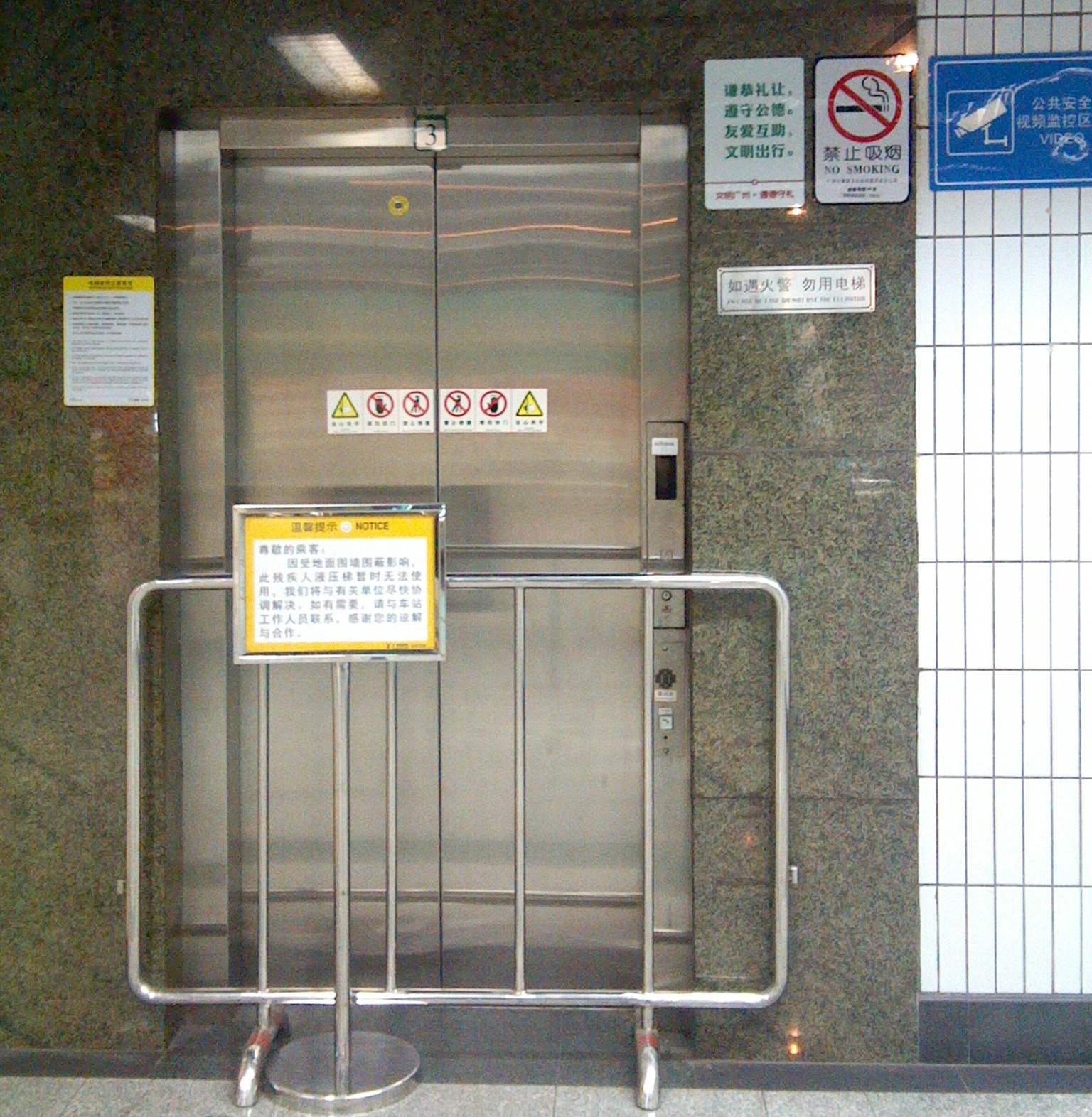 本站A出入口的专用电梯至今无法使用